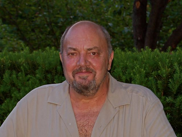 George DiCenzo, American character actor